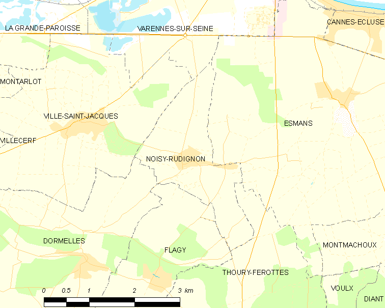 Map of French municipality Noisy-Rudignon